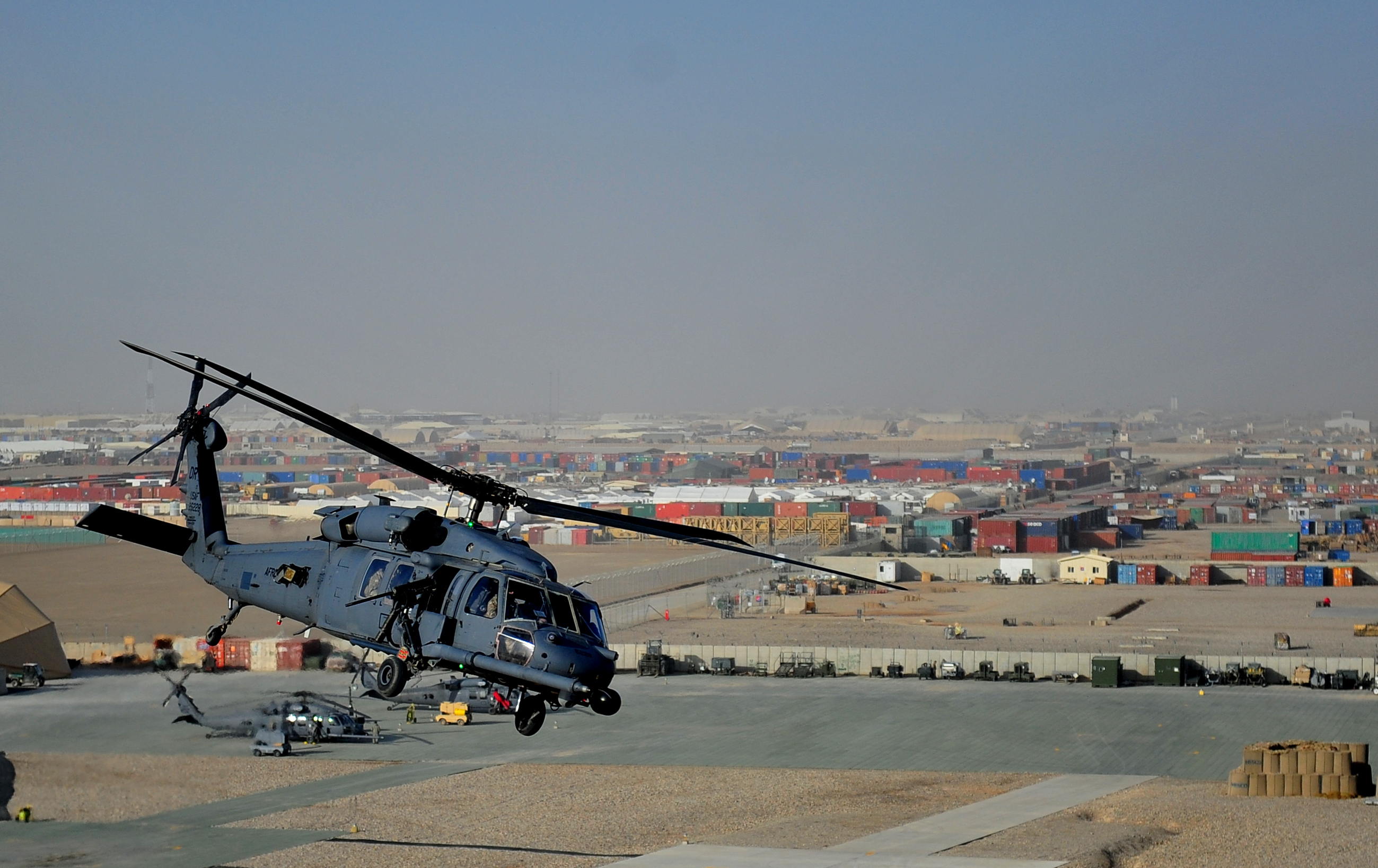 An HH-60G Pave Hawk helicopter from the 26th Expeditionary Rescue Squadron executes a mission here. The 26th ERQS compliments their traditional personnel recovery mission with medical evacuation operations in Afghanistan’s Regional Command Southwest.